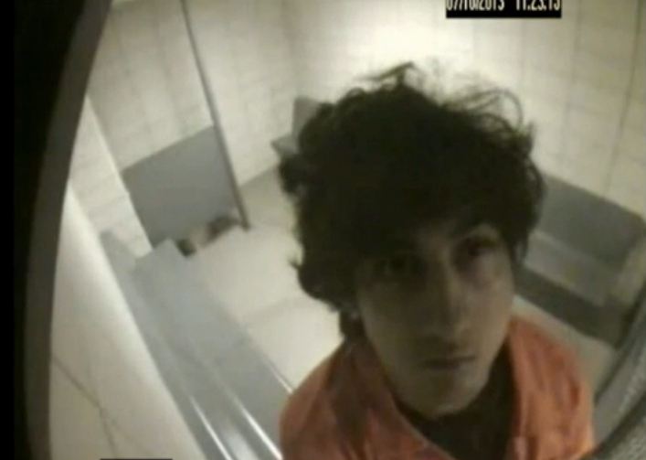 Dzhokhar Tsarnaev